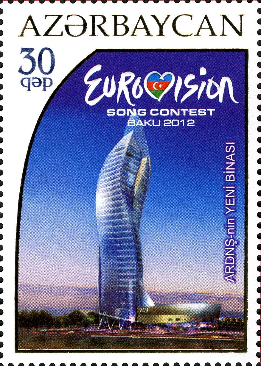 "Eurovision - 2012" song contest